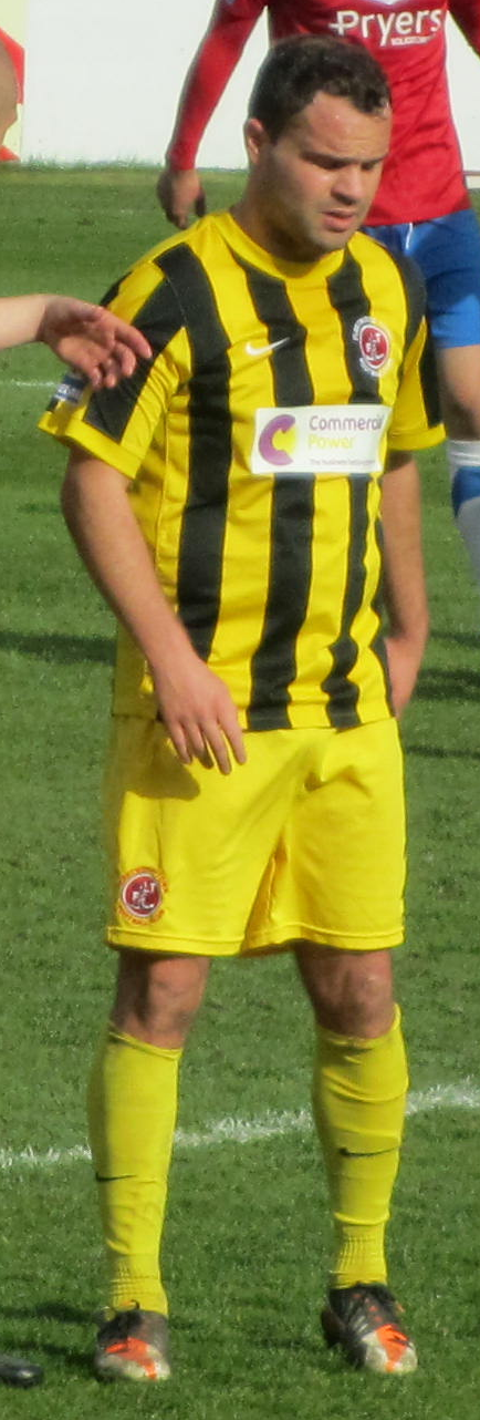 Lee Fowler